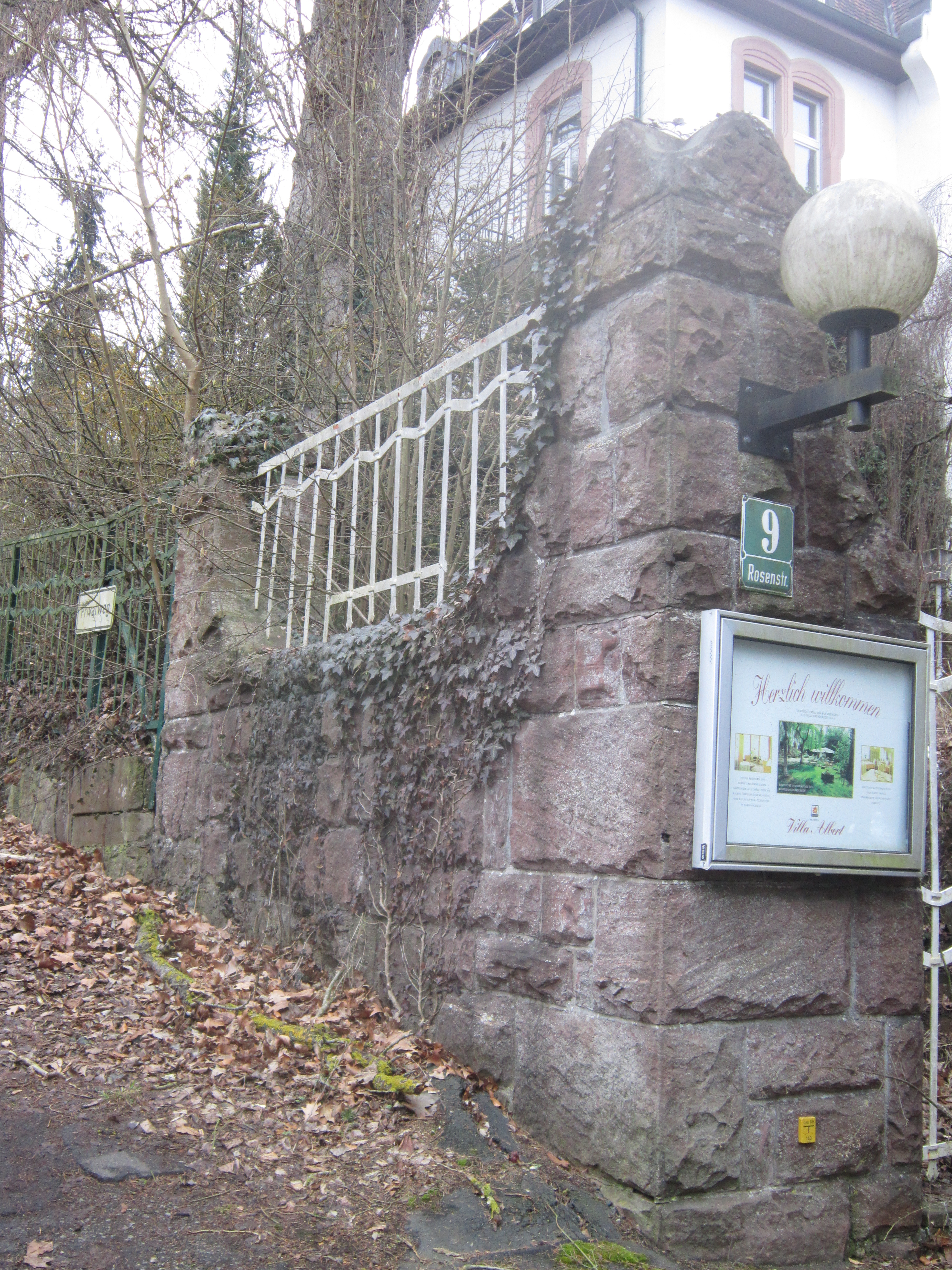 Building in the German spa town of Bad Kissingen in Lower Franconia (Bavaria) (Address: Rosenstraße 9).